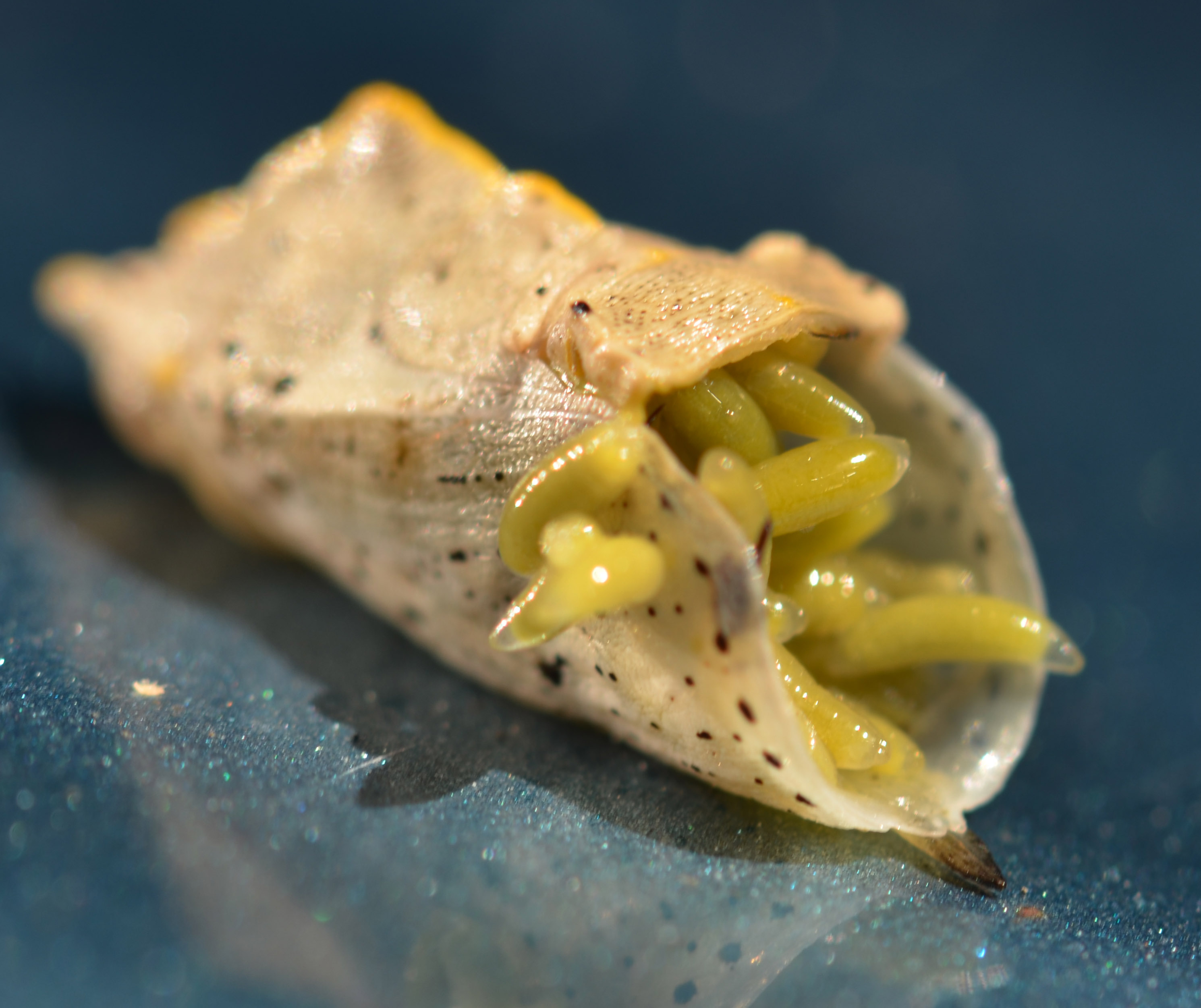 Chrysalis of Pieris, parasitized by a micro-wasp (parasitoid)